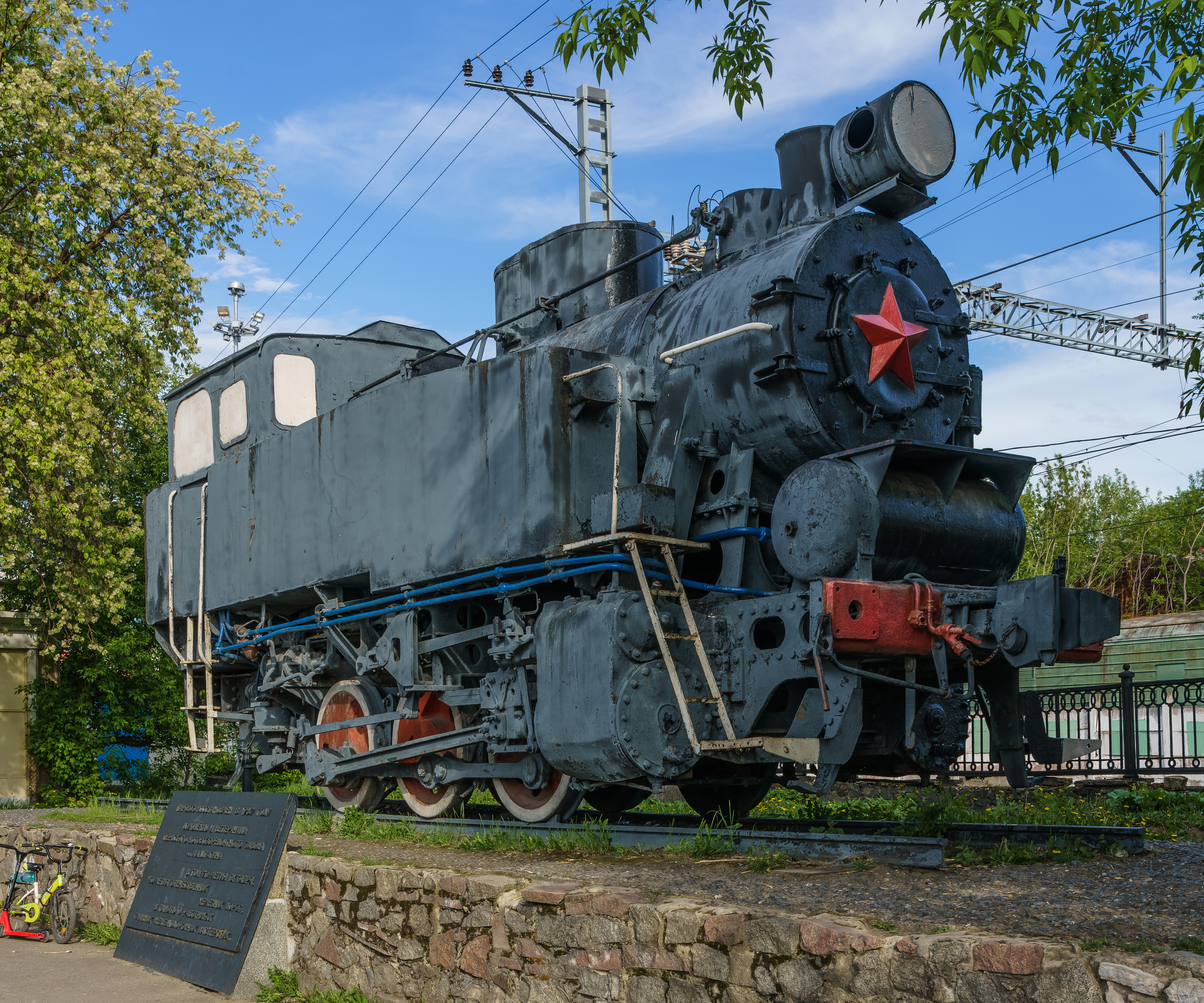 Historical 9P steam locomotive at Perm-I railway station in Perm, Russia